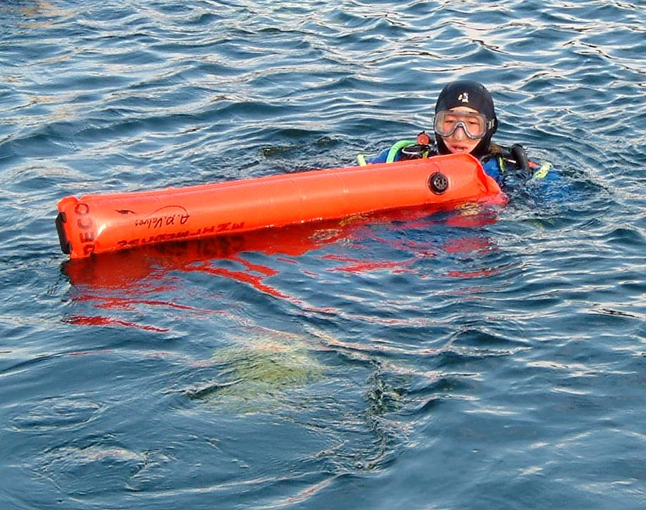 Surface Marker Buoy